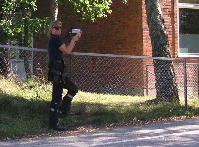 Use of a hand-held lidar laser speed gun| to measure the speed of vehicles in a school zone in Sweden